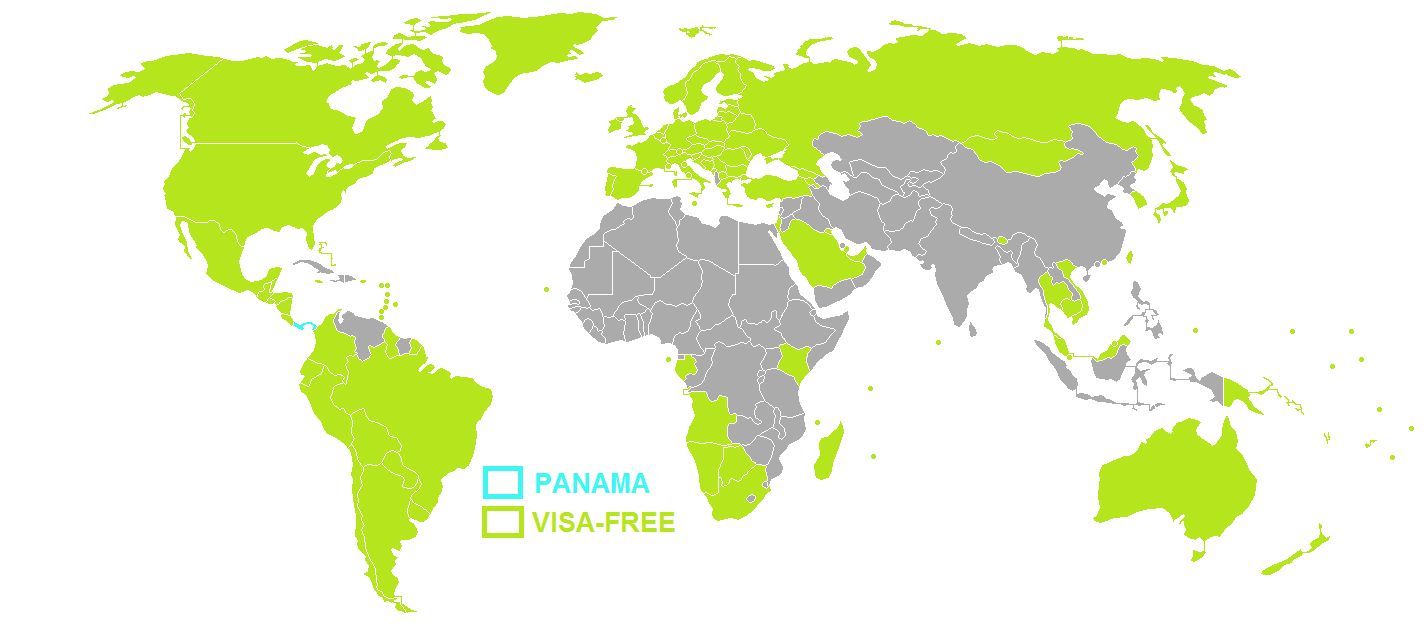 Visa policy of Panama Panama Visa-free